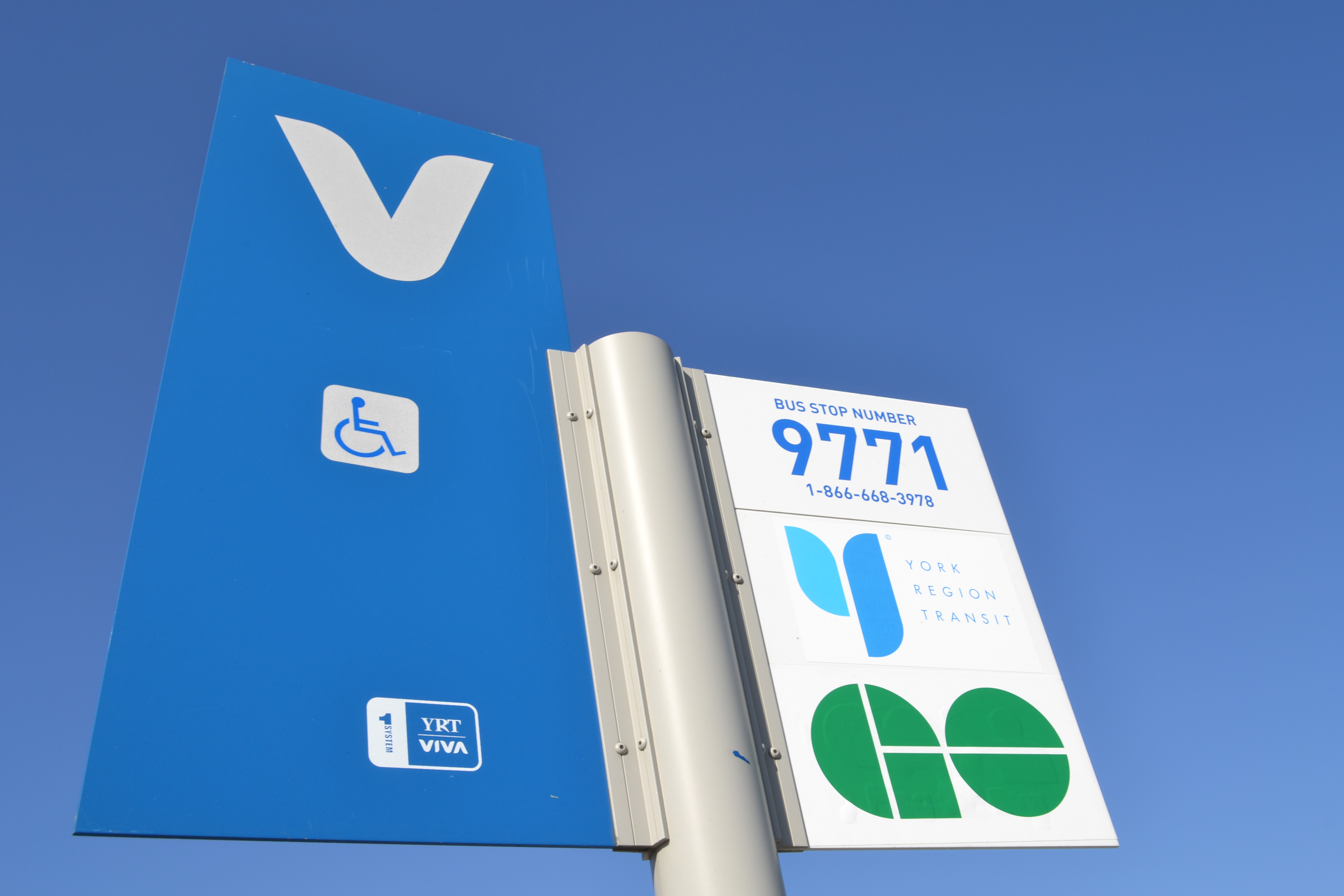 Viva Bus Stop Sign at Yonge & Clark